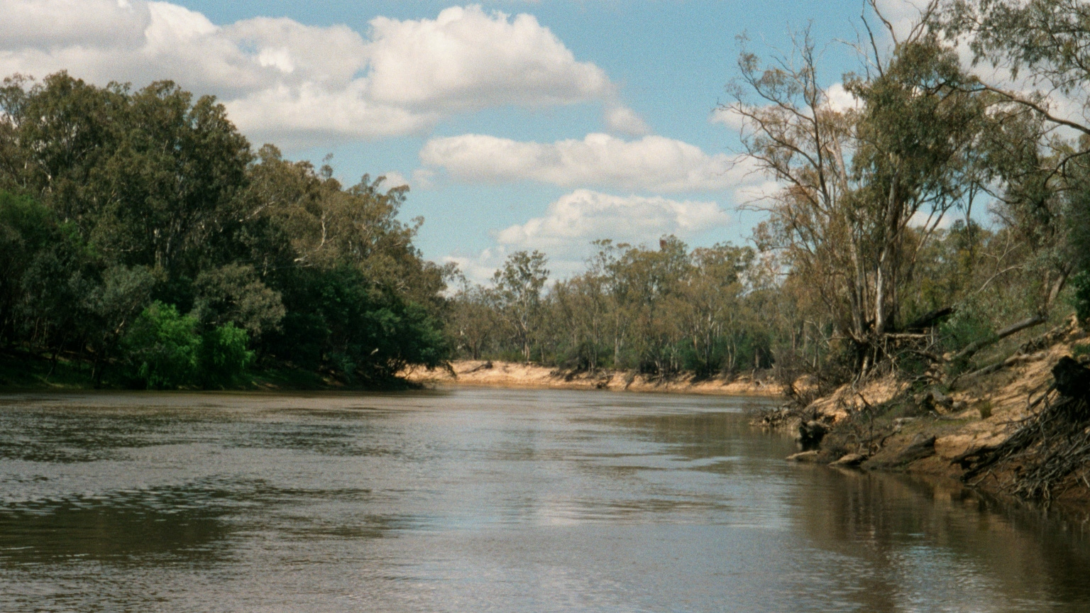 Murray River near Echuca, Victoria, Australia